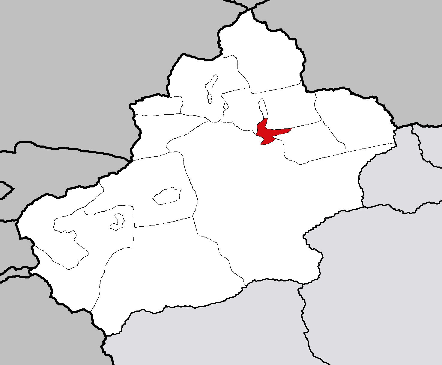 Maps of Xinjiang Uygur Autonomous Region of China